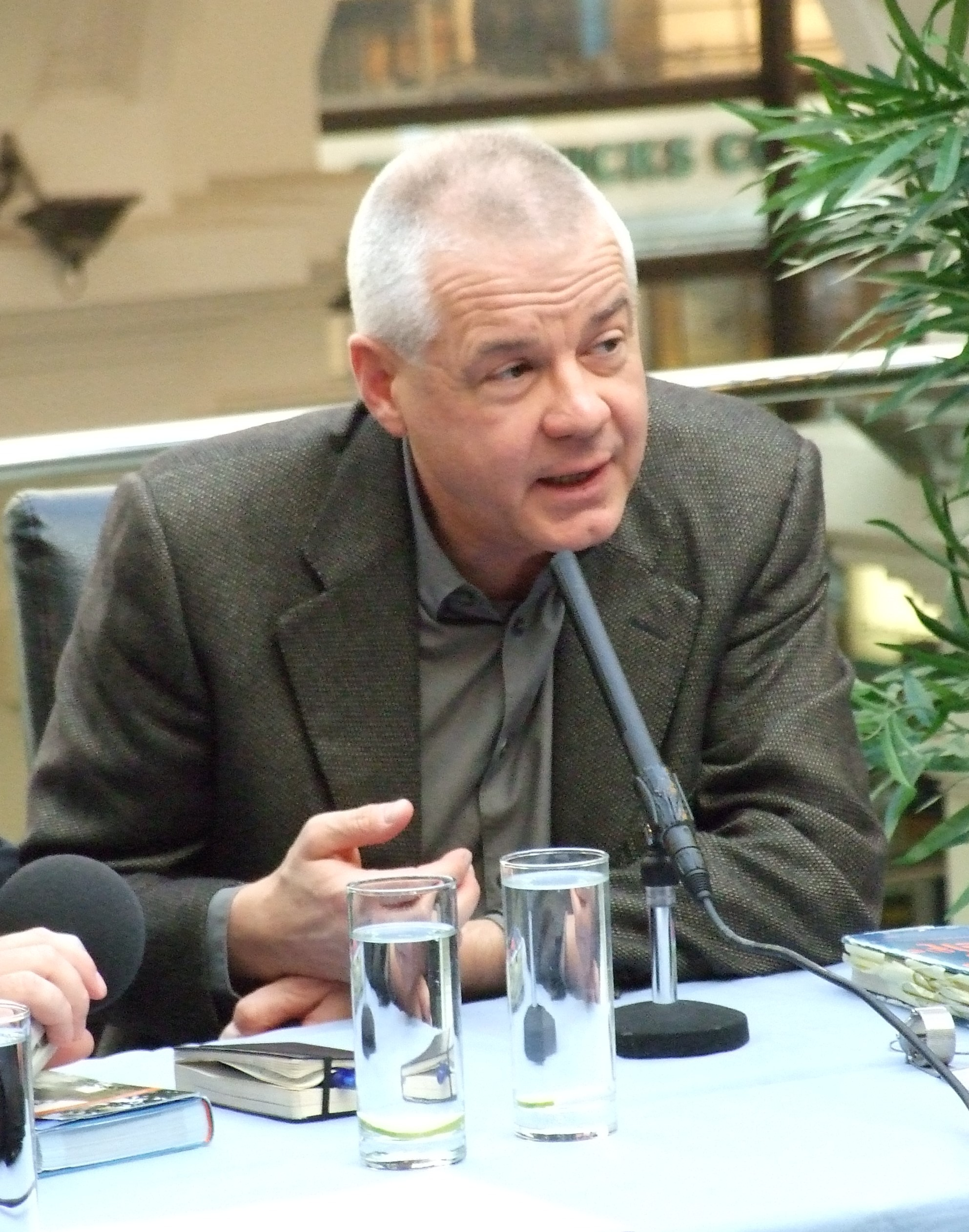 Matthias Politycki (German writer) in Frankfurt am Main